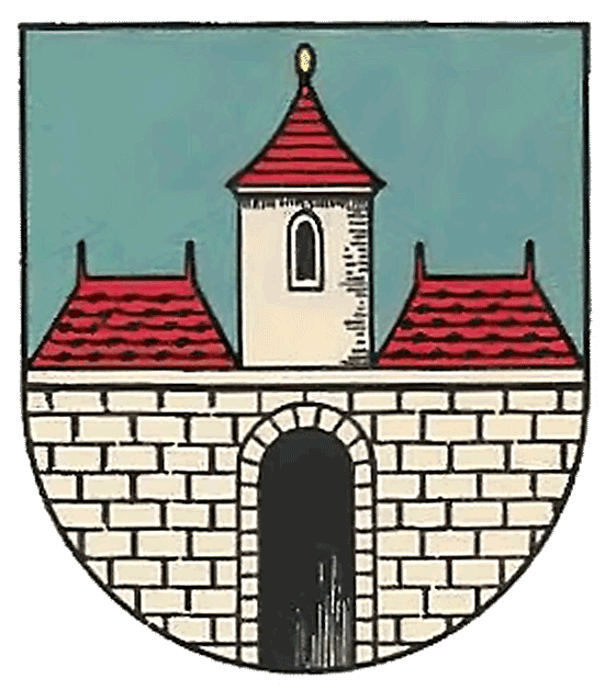 Coat of arms of Hütteldorf, Vienna